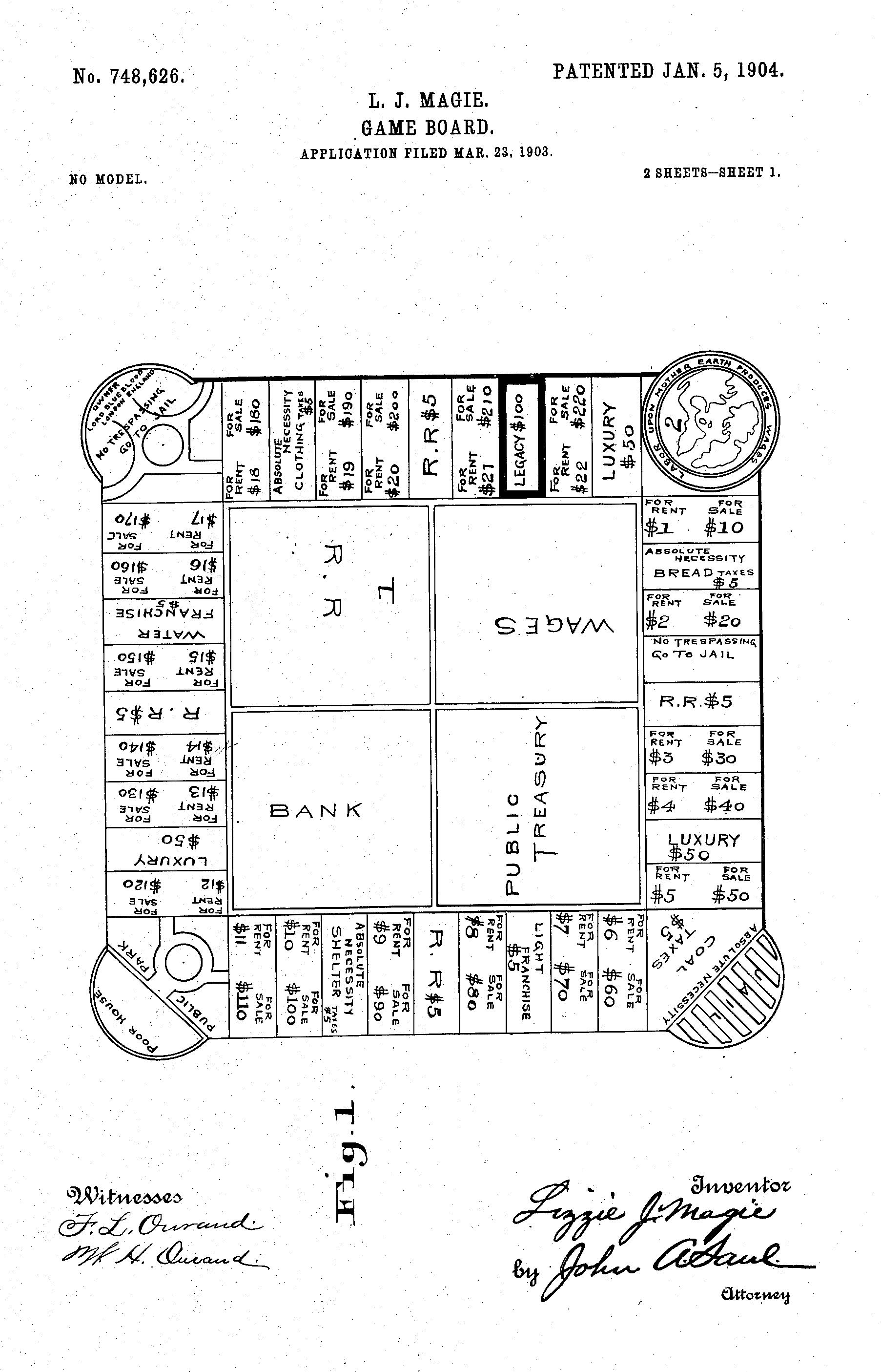 Drawing for a Game Board, 01/05/1904. This is the printed patent drawing for a game board invented by Lizzie J. Magie.